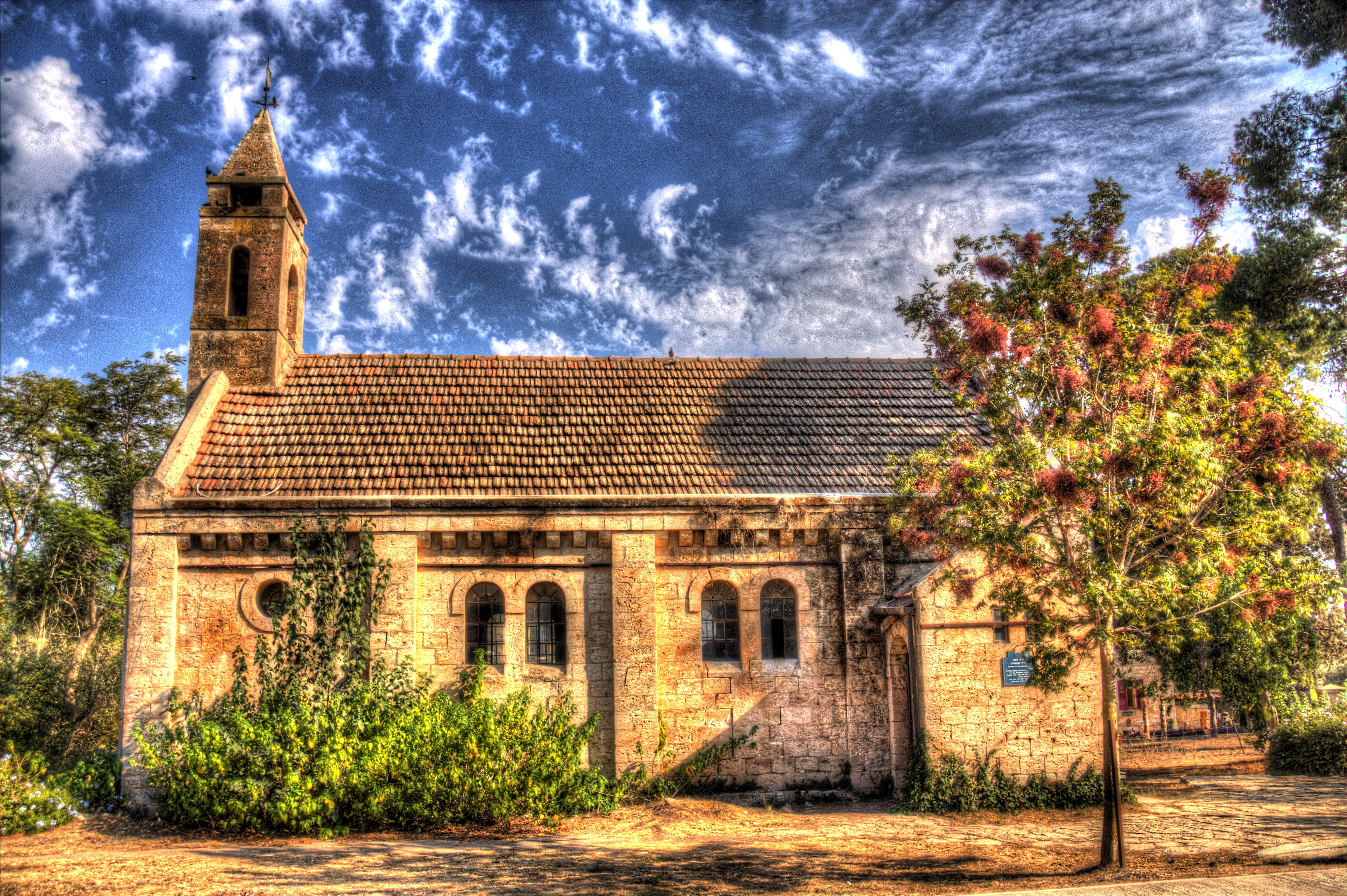 This is a photo of a heritage building in Israel. Its ID is 6-0429-002